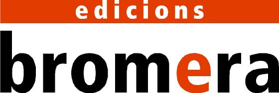 Bromera's Logo